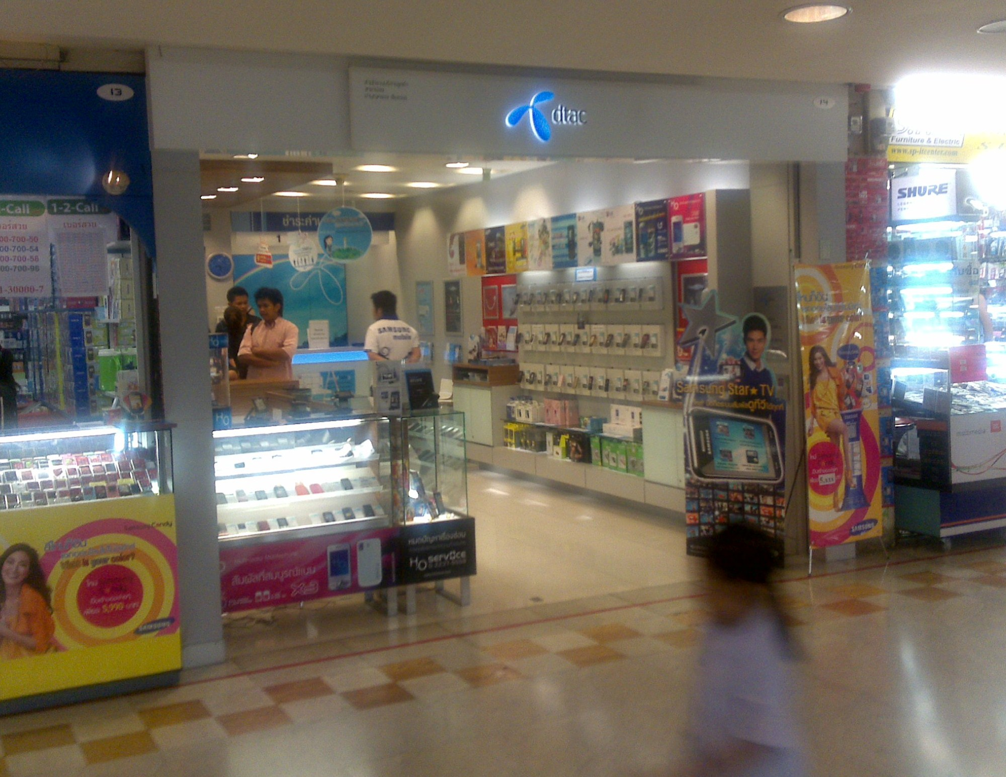 DTAC shop at MBK supermarket, Bangkok